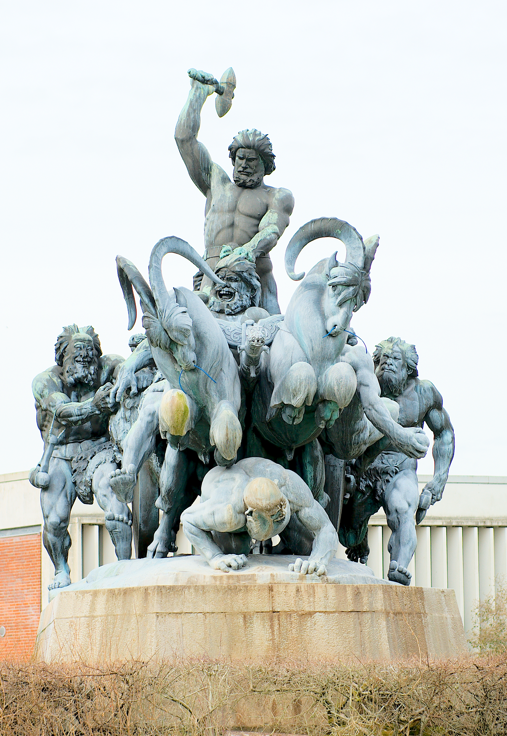 Thors battle with the jættens/giants